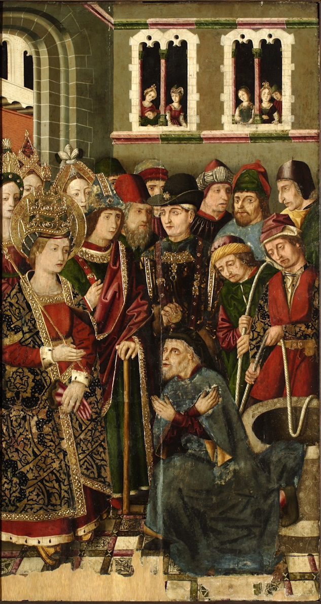 Medieval Spanish painting shows inter alia a Jew few years before expulsion from Spain, originally a retable of the Saint Cross of Blesa